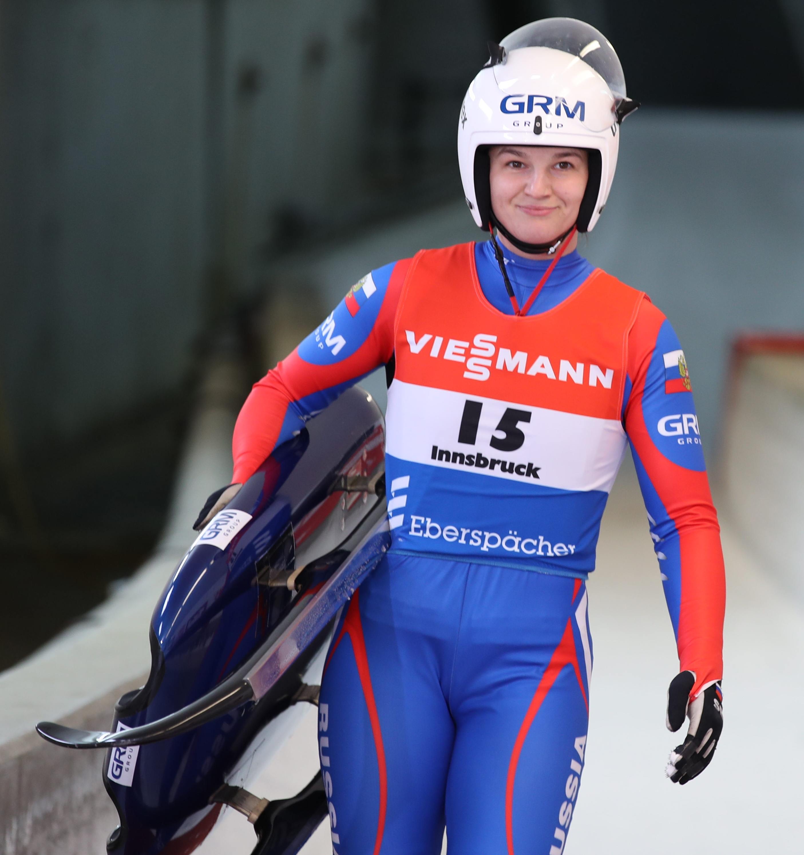 Women's World Cup race at the 2019/20 Luge World Cup in Innsbruck-Igls